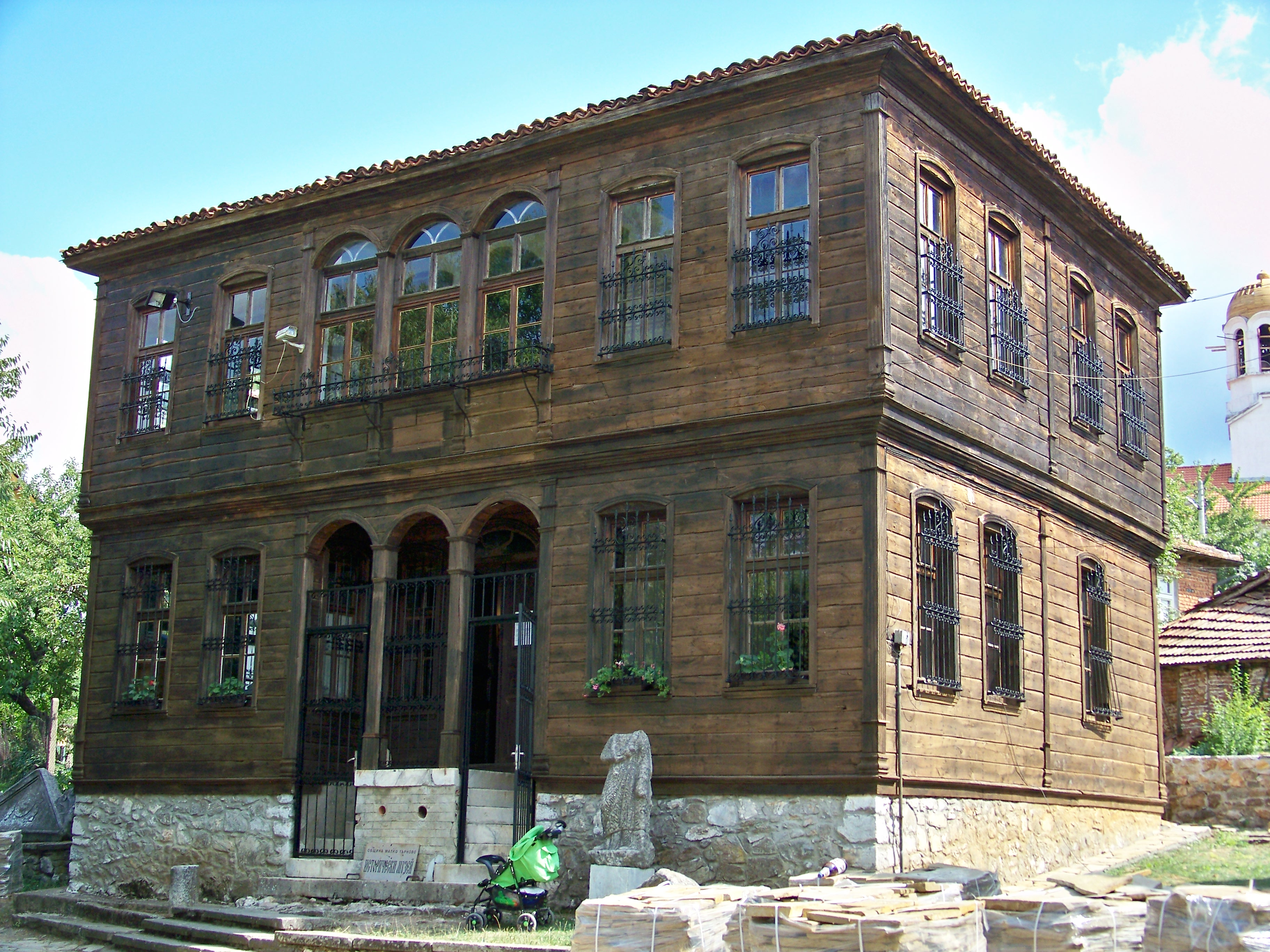 History museum, Malko Tarnovo, Bulgaria.